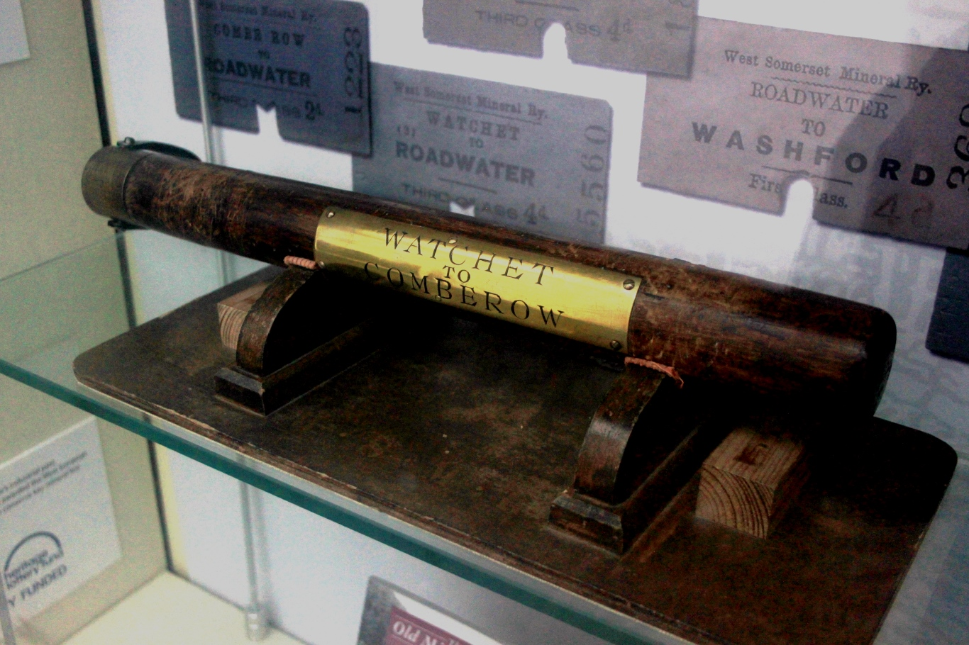 The train staff that used to be used to ensure that only one train was on the West Somerset Mineral Railway between Watchet station and the bottom of Comberrow incline. It is on display in Watchet Museum.